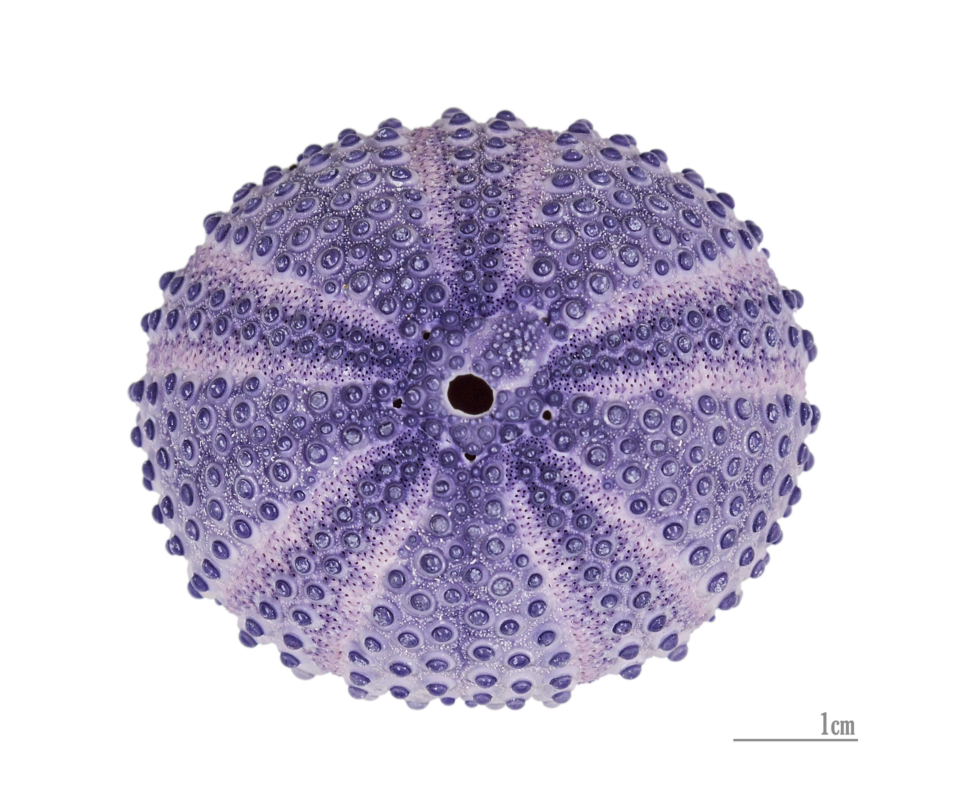 Shingle urchin, Test, upper face. 1) Periproct; 2) Genital pores; 3) Madreporite